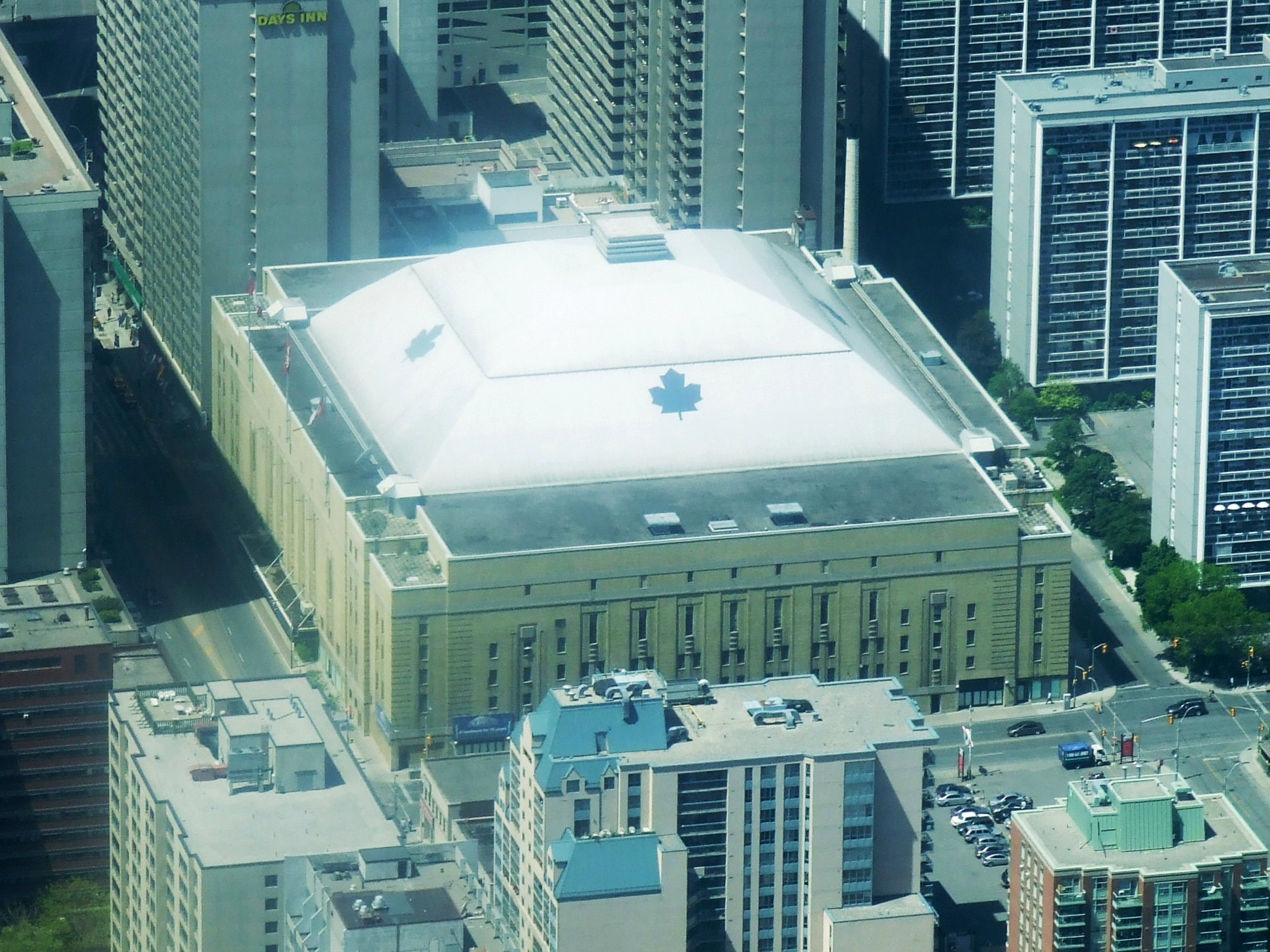 Maple Leaf Gardens, Church St facade, Toronto ON, 2008